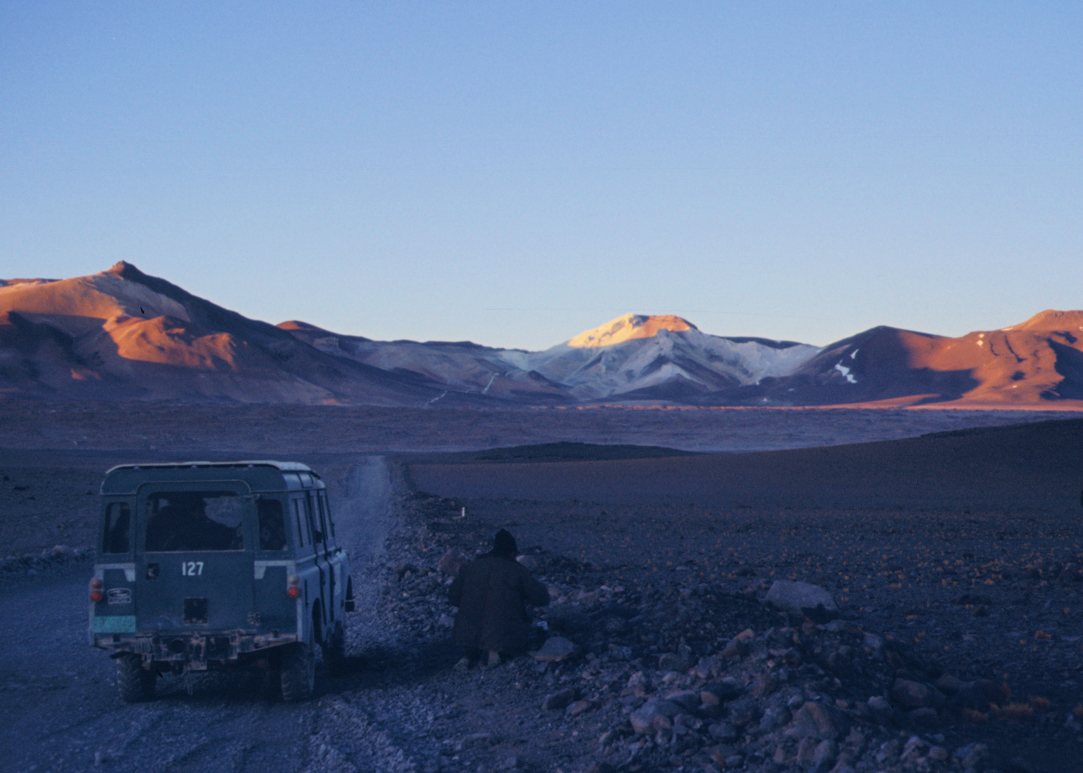 Road to Mina Julia on Cerro Escorial (5400 m ASL, center background )